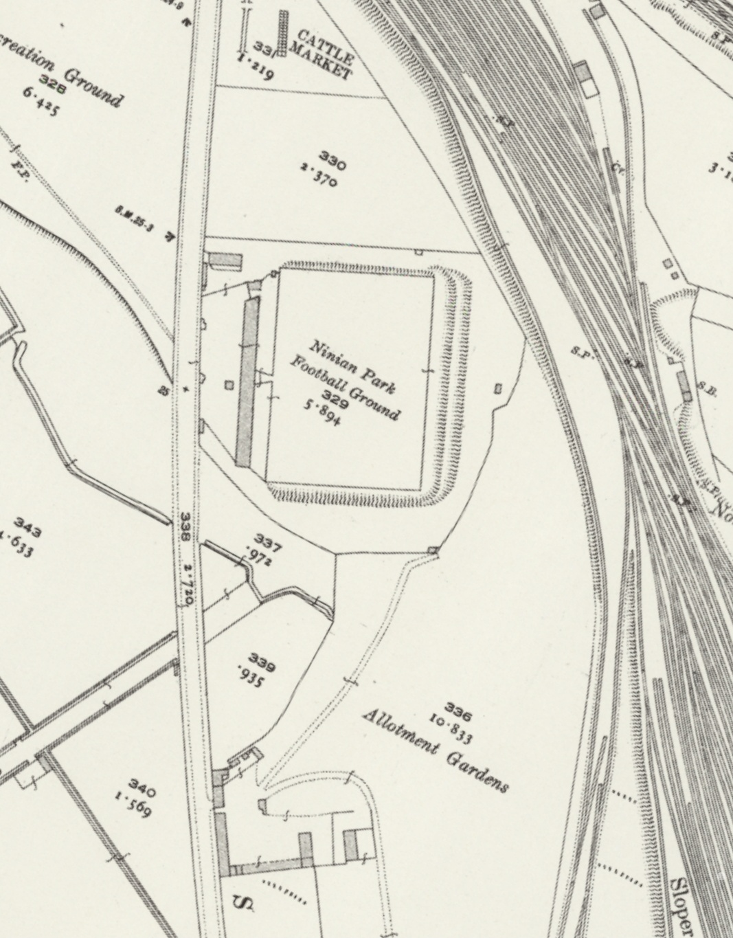 Ninian Park featured on an Ordnance Survey map in 1920. Scale 1:2,500